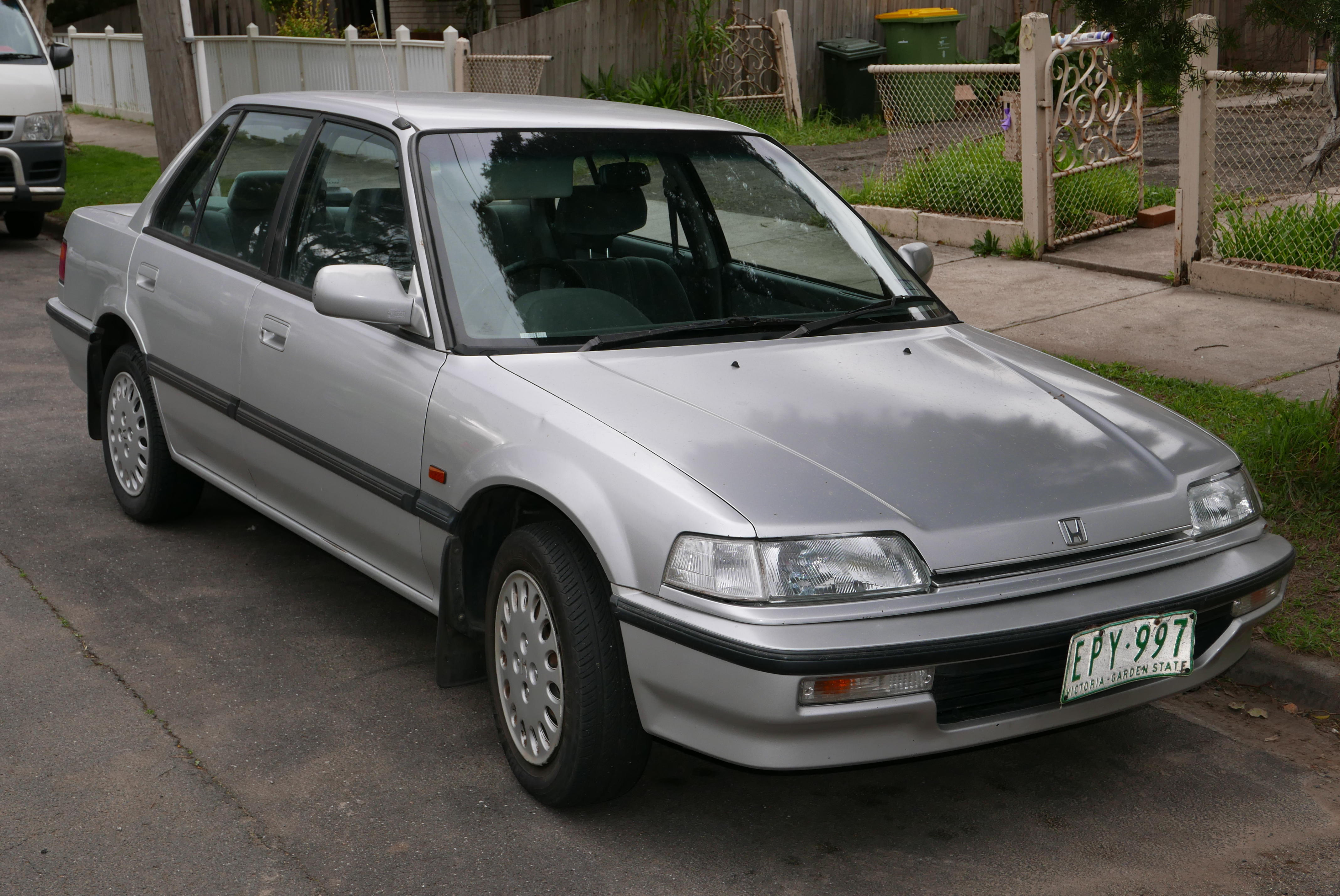 1991 Honda Civic (ED) GL sedan. Photographed in Northcote, Victoria, Australia. Vehicle registration enquiry results Jurisdiction Victoria Registration EPY997 Chassis code JHMED35300S302298 Engine code D15B41600927 Compliance date 1991-01 Year of manufacture 1991